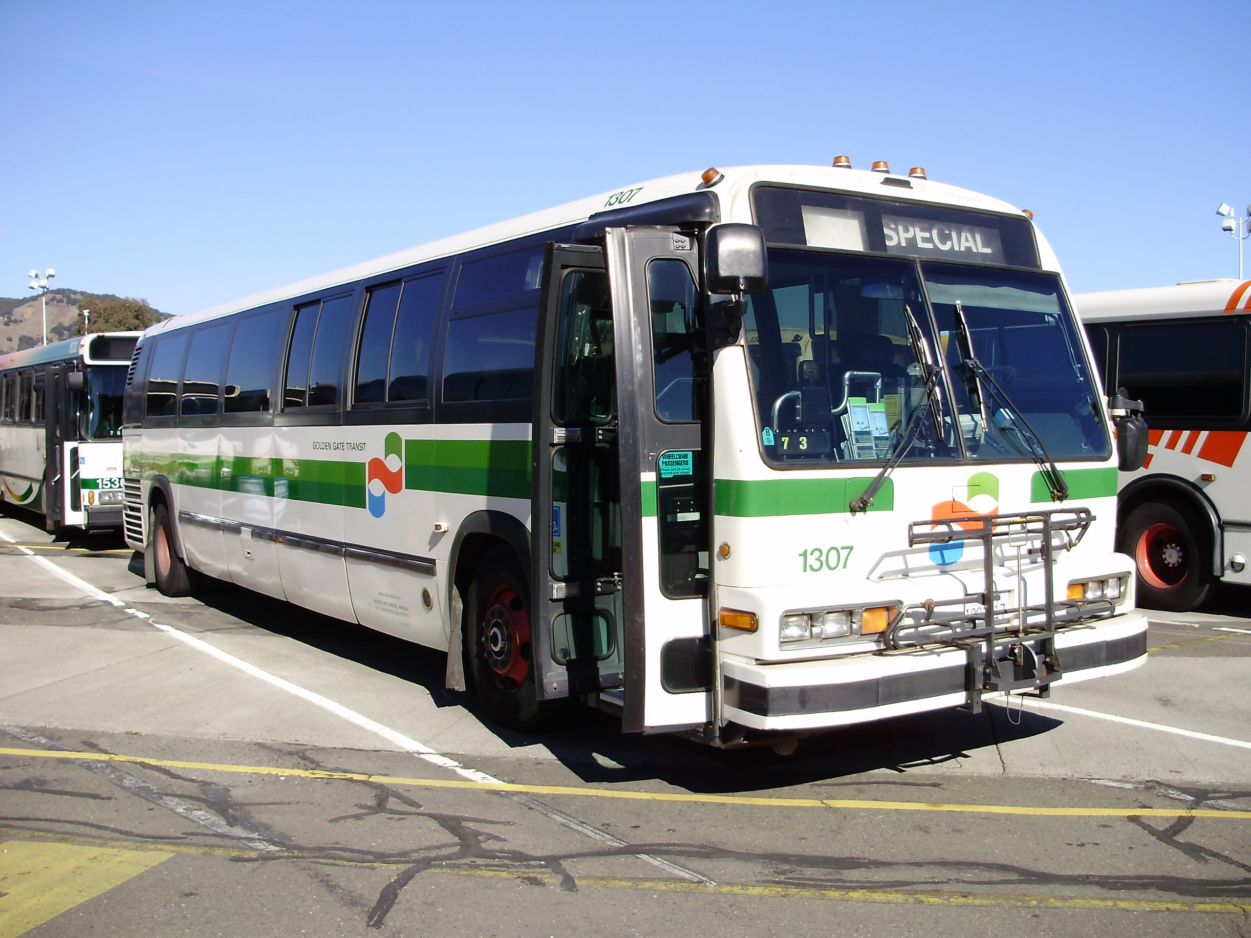 NovaBus RTS 40-ft. bus with single door. Golden Gate Transit bus fleet number 1307.